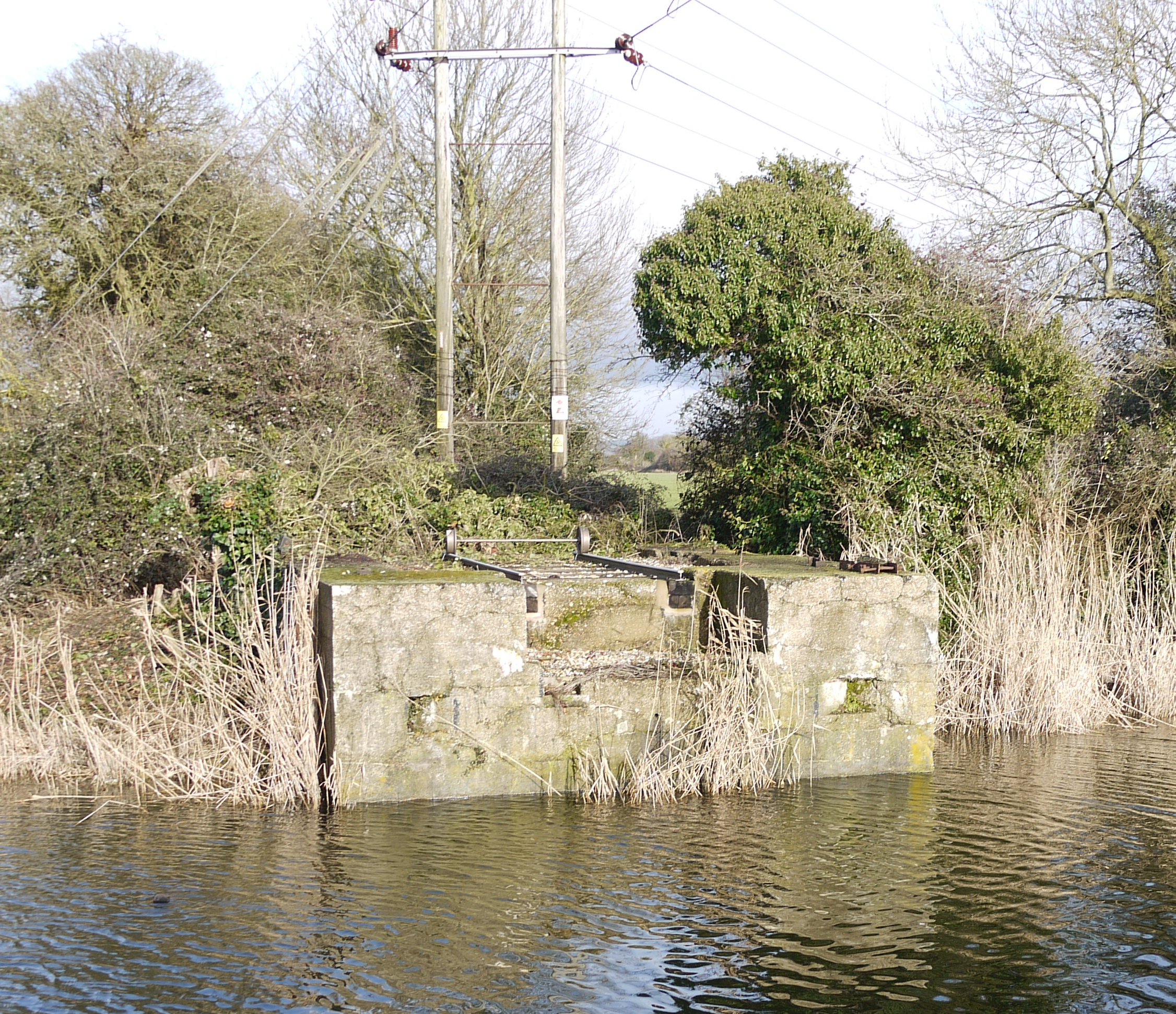 Photo of the remains of where the West Sussex Railway/Hundred of Manhood and Selsey Tramway crossed the Chichester canal